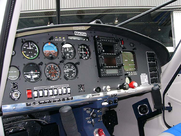 Symphony Aircraft SA-160 (N642SA) instrument panel photo taken at the Symphony plant August 2005